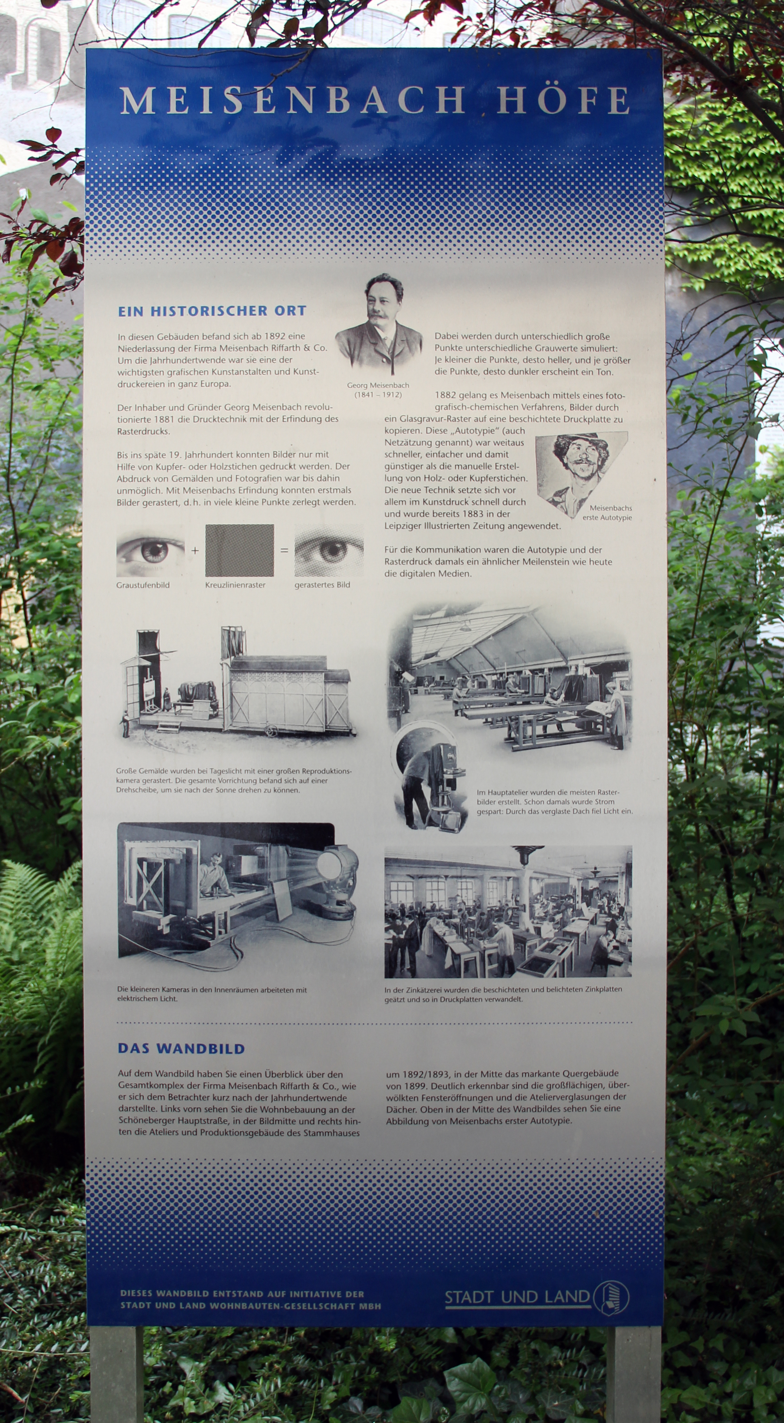 Memorial plaque, Georg Meisenbach, Hauptstraße 8, Berlin-Schöneberg, Germany